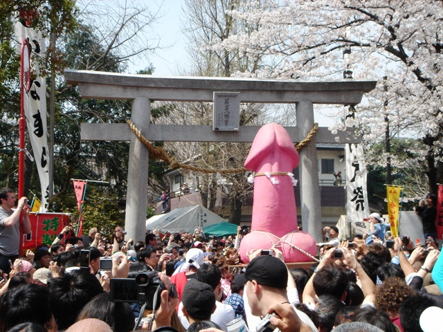 Kanamara parade, the Elizabeth Float is just passing through the shrine gate.